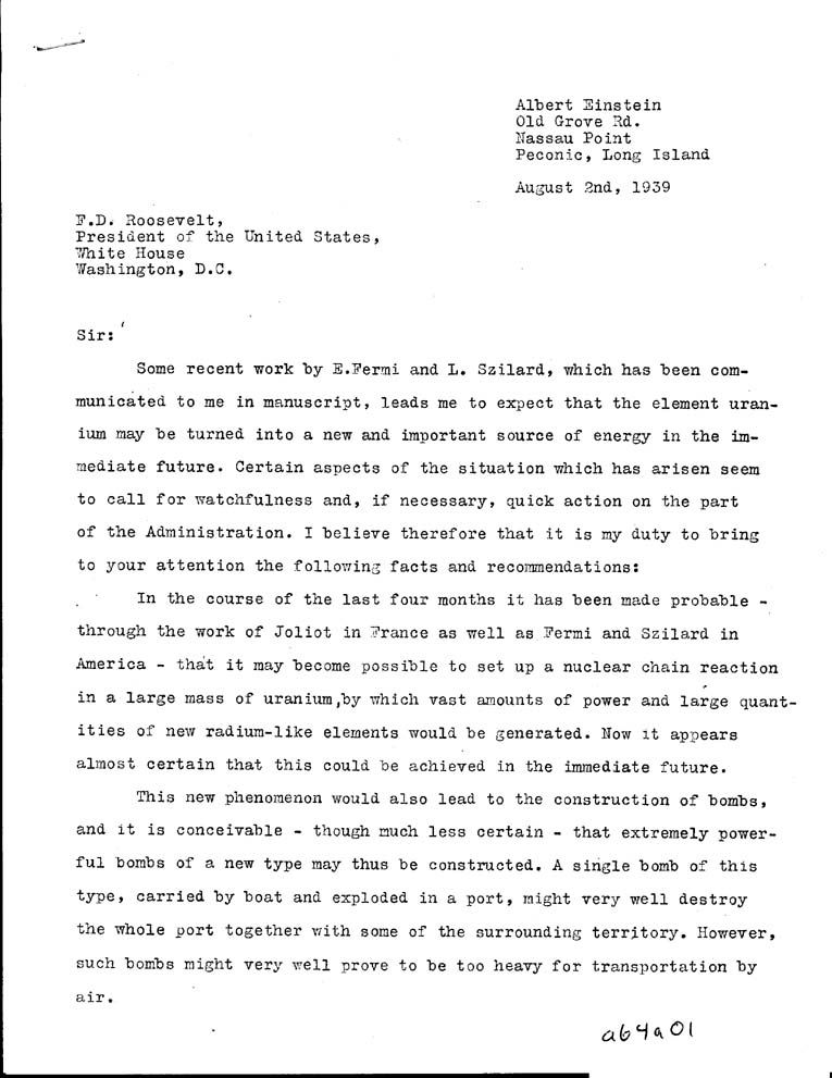 Facsimile of the letter of Einstein (Szilárd) to President F. D. Roosevelt